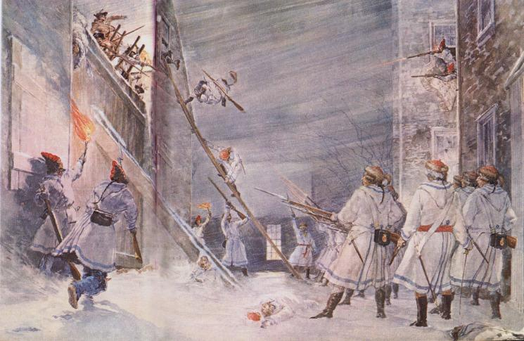 Invasion of the city of Québec in 1775